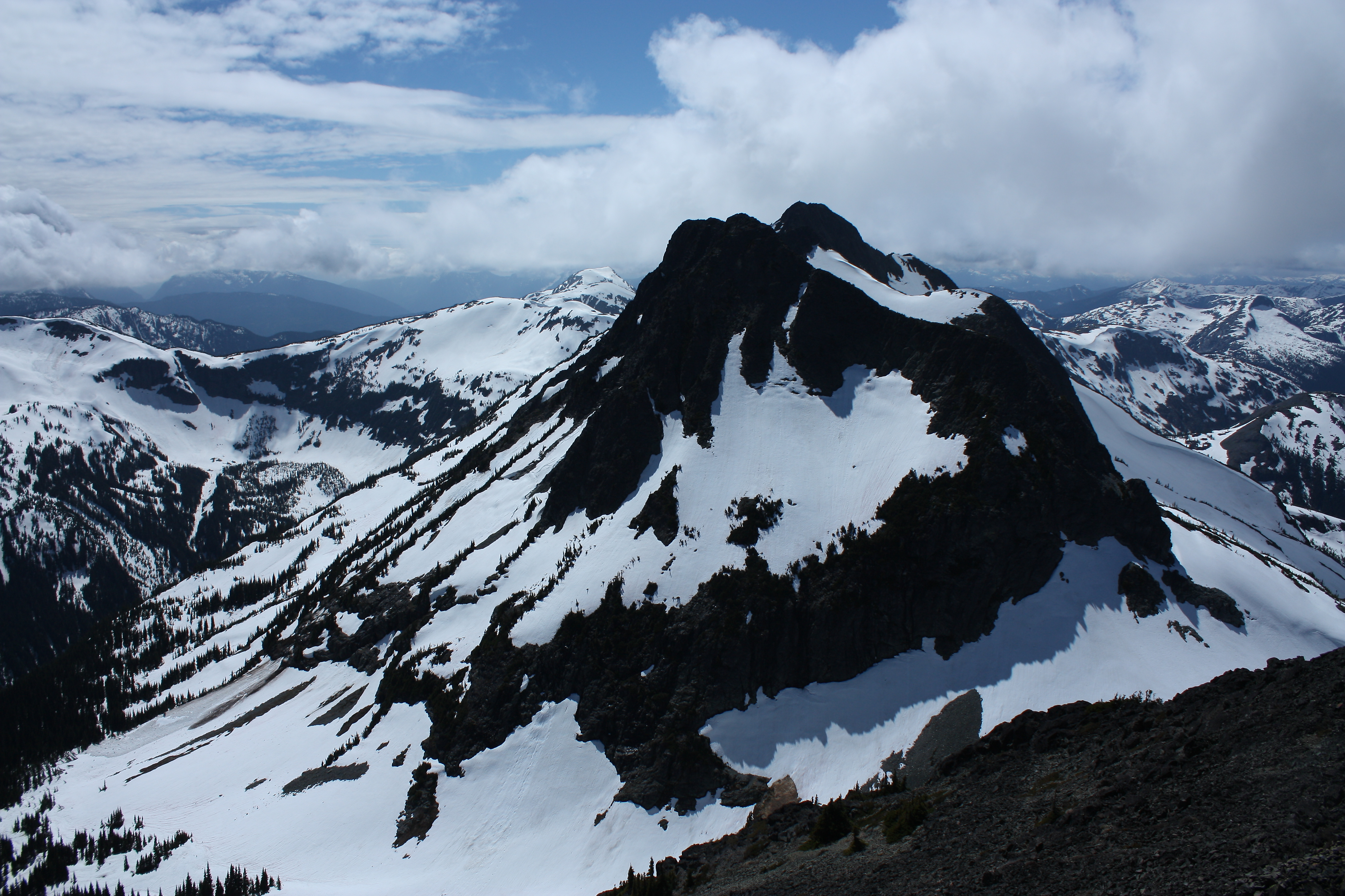 Coquihalla Mountain's east aspect as seen from Jim Kelly Peak